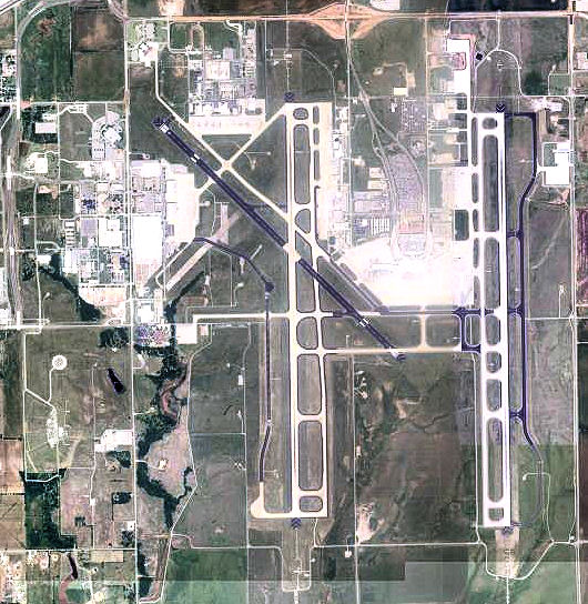 USGS digital orthophoto of Will Rogers World Airport in Oklahoma